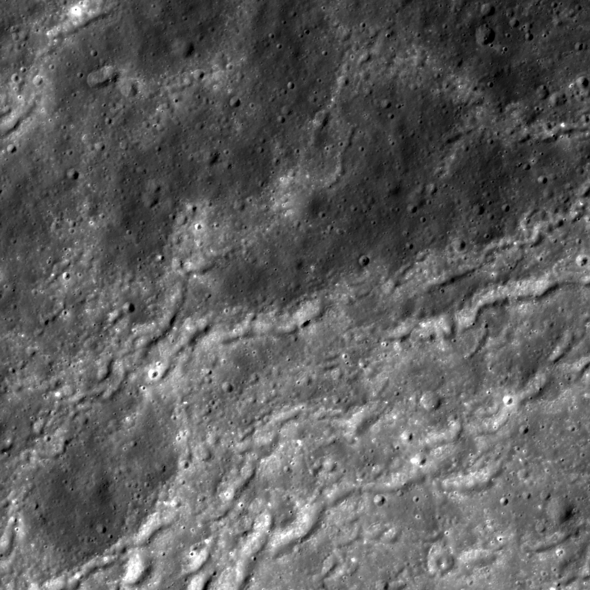 Ridges and grooves within about 3 km of the NW rim of Dante C crater